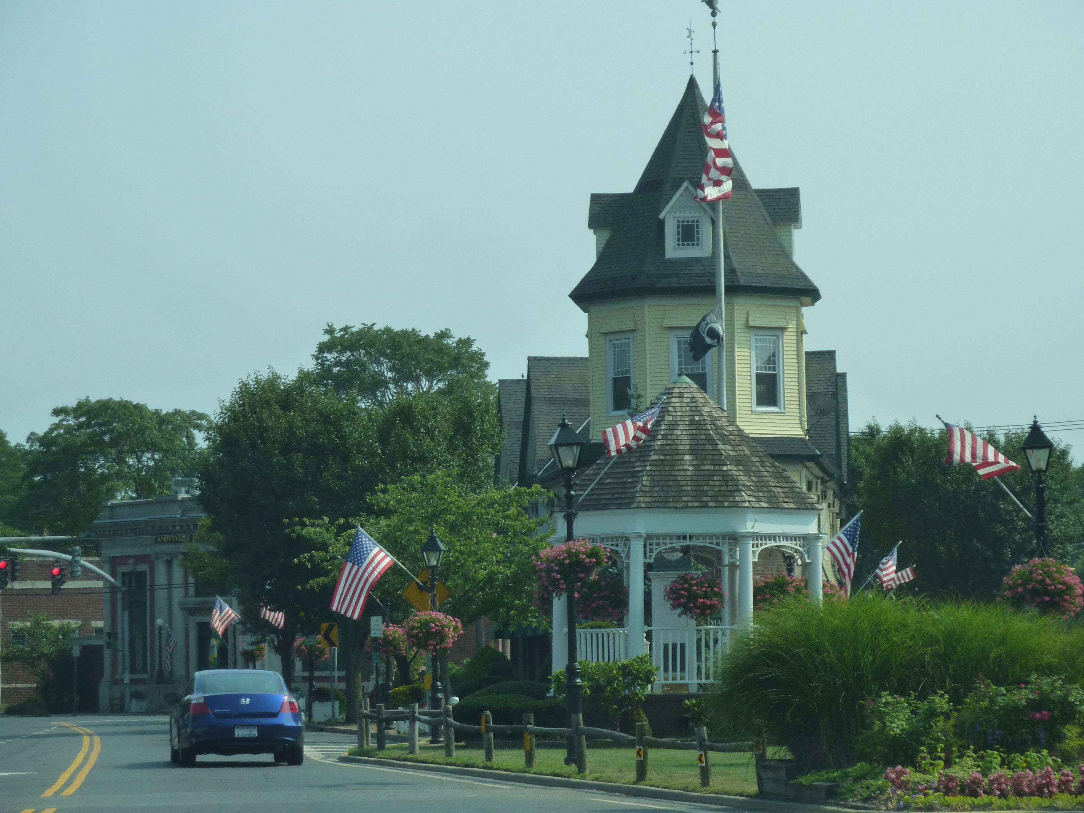 Downtown Amityville, New York